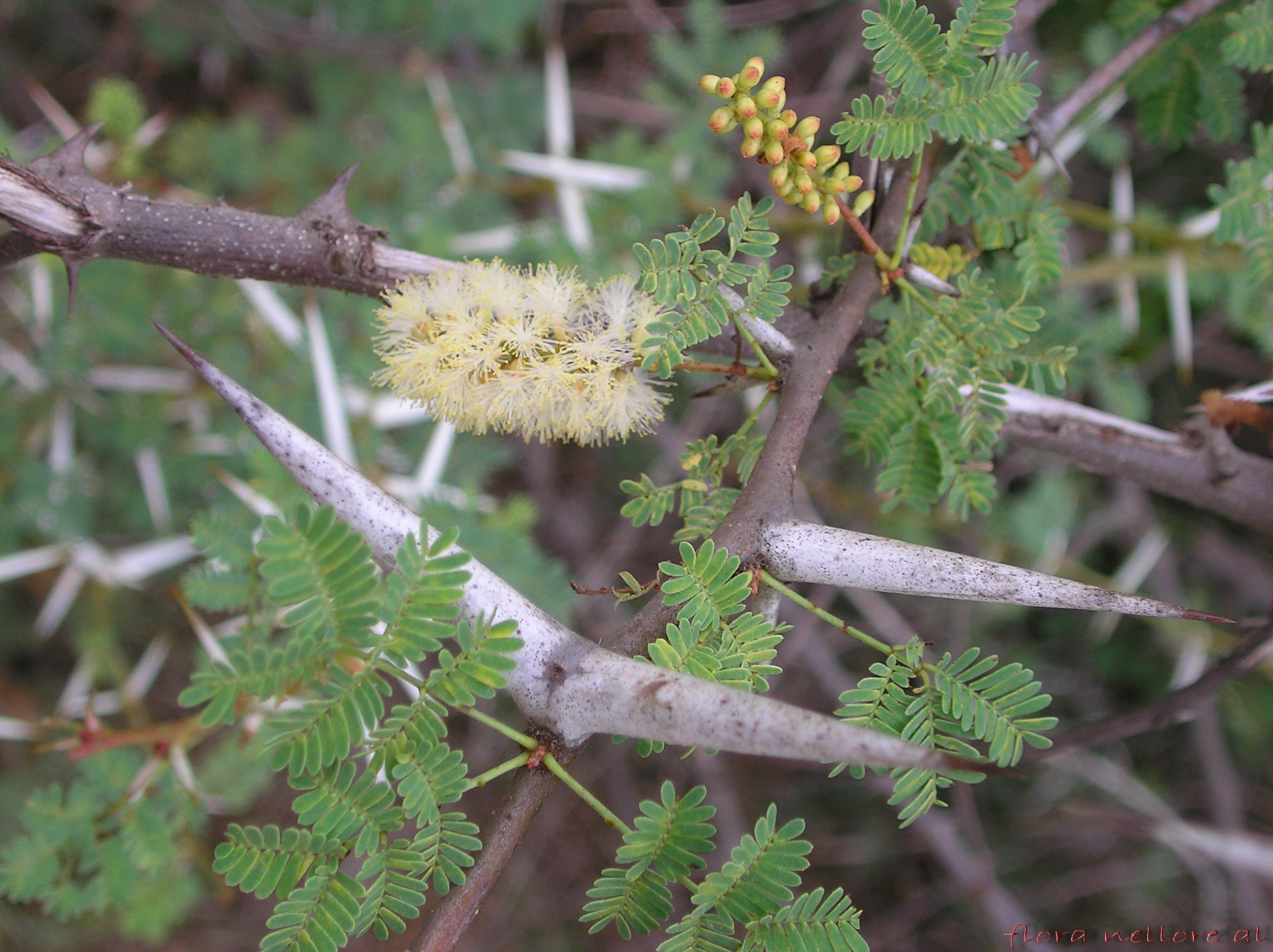 Family: Mimosaceae Distribution: Common in scrub jungles. Found in India and Parts of Africa. Armed shrubs, 2-3 mts tall. Leaves 2-4cm long, bipinnate, leaflets 6-8 pairs; Stipules modified into spines. the thorns are 2-8cm long, sharp , hollow and white. Ants stay in these thorns. Flowers 2-3mm across, white, or creamy yellow, in 2-3cm long axilary fasiculate spikes. Pod reniform, black with 2 orbicular seeds. Wood is used as fuel. Reference: Flora of presidency of Madras by J.S Gamble, ENVIS, Flora of Nellore district By B.Suryanarayana &A.S Rao